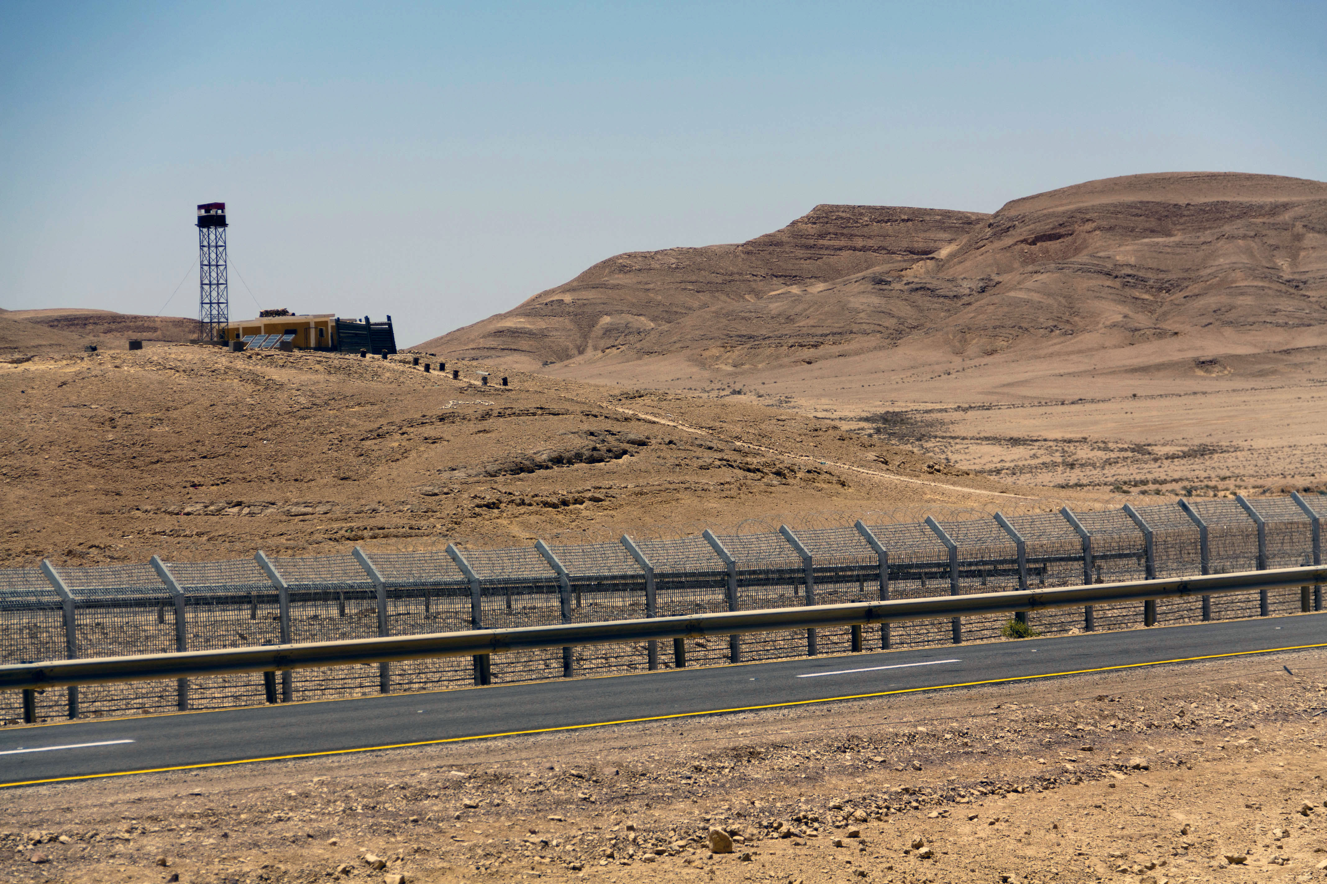 Point where terrorists crossed the border to committ the 2011 southern Israel attacks, next to an Egyptian military post. The Israel-Egypt barrier was built in 2012